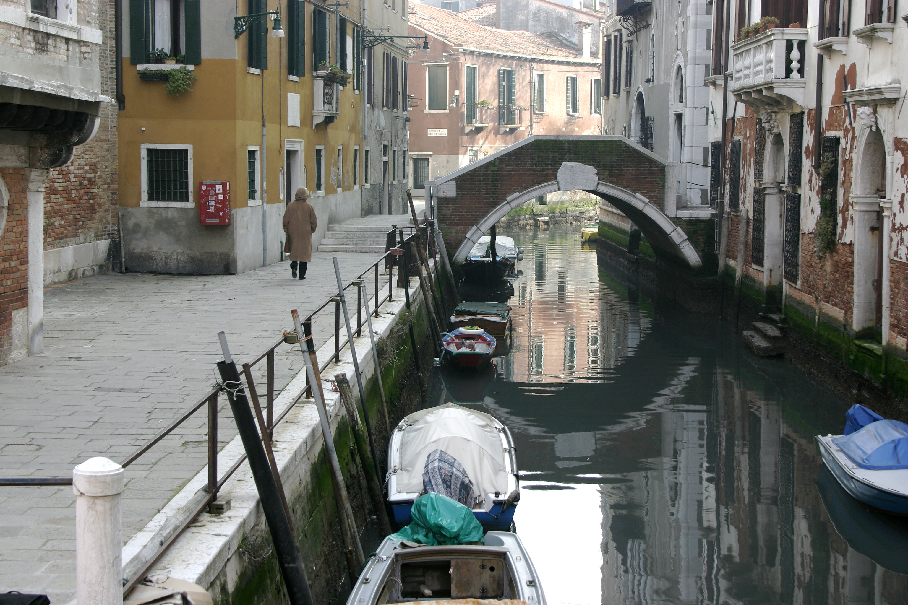 Venice – Fondamenta del Piovan